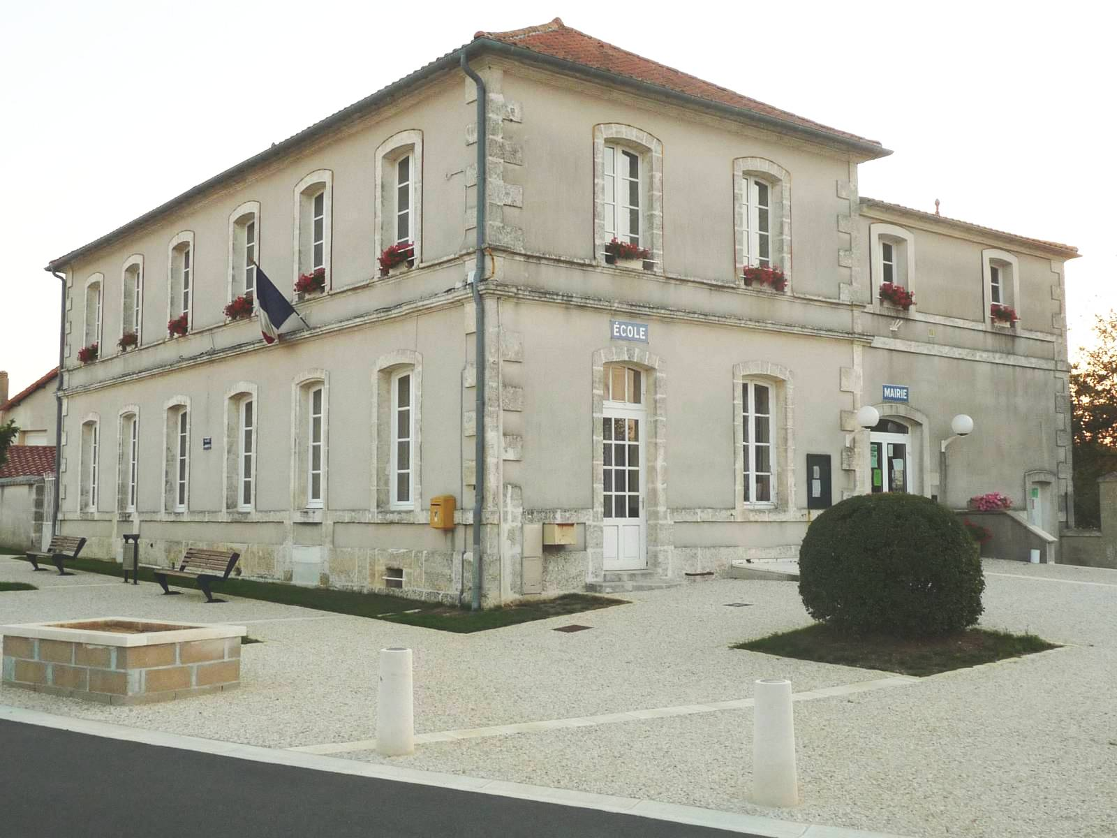 town hall